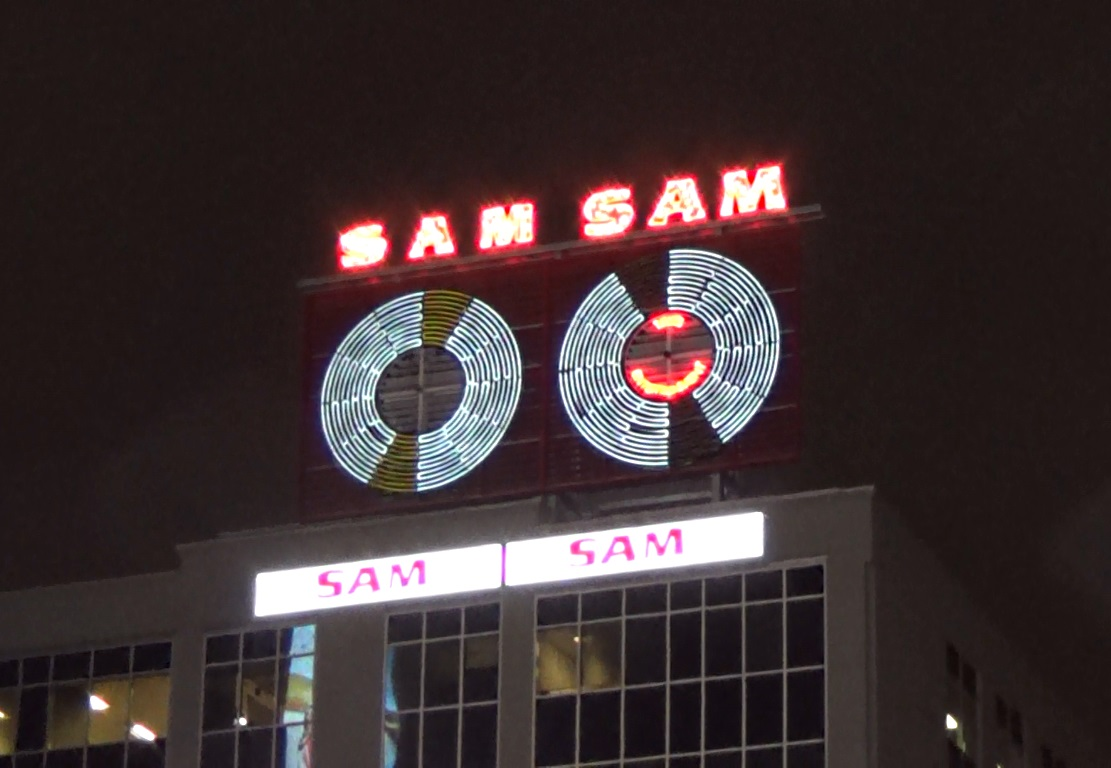 The Sam's sign, reinstalled at Yonge-Dundas Square